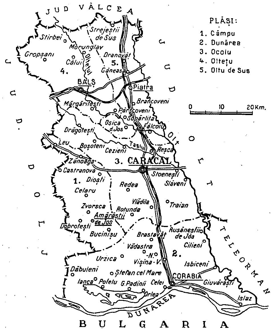 Map of Romanați interwar county, Kingdom of Romania (1938).